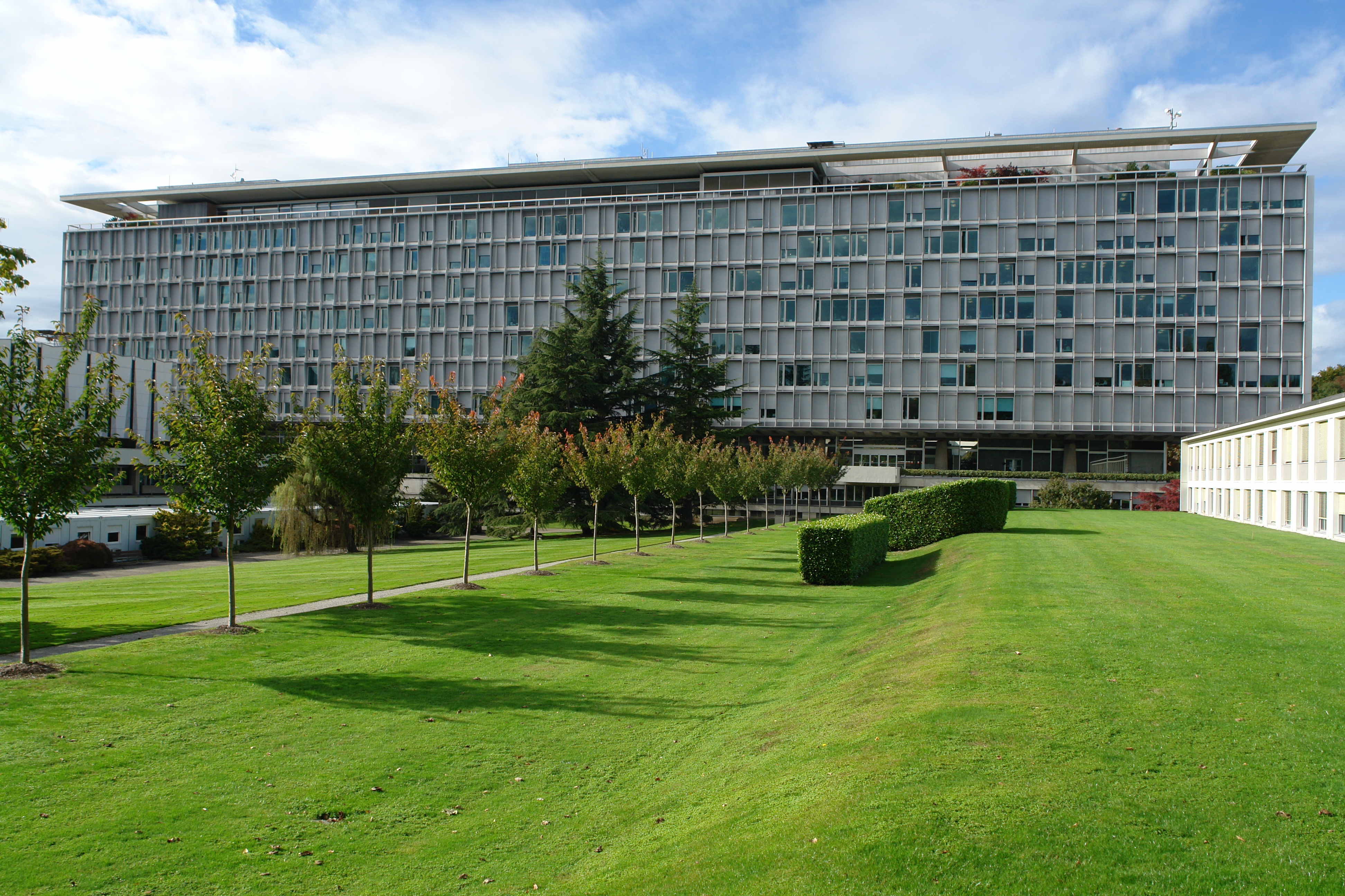 World Health Organisation building from south, Geneva